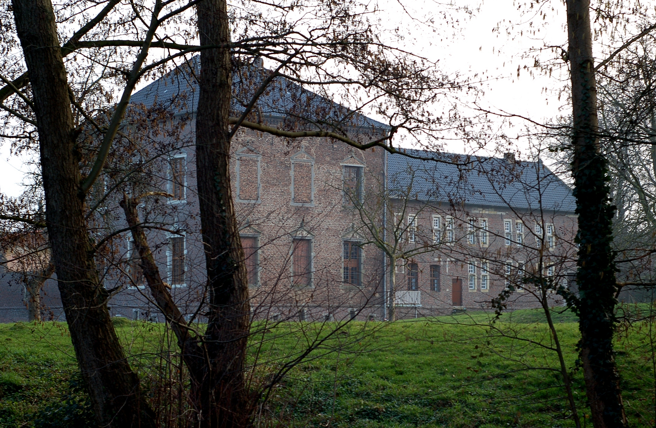 Haus Blumenthal, Hückelhoven-Brachelen; Germany